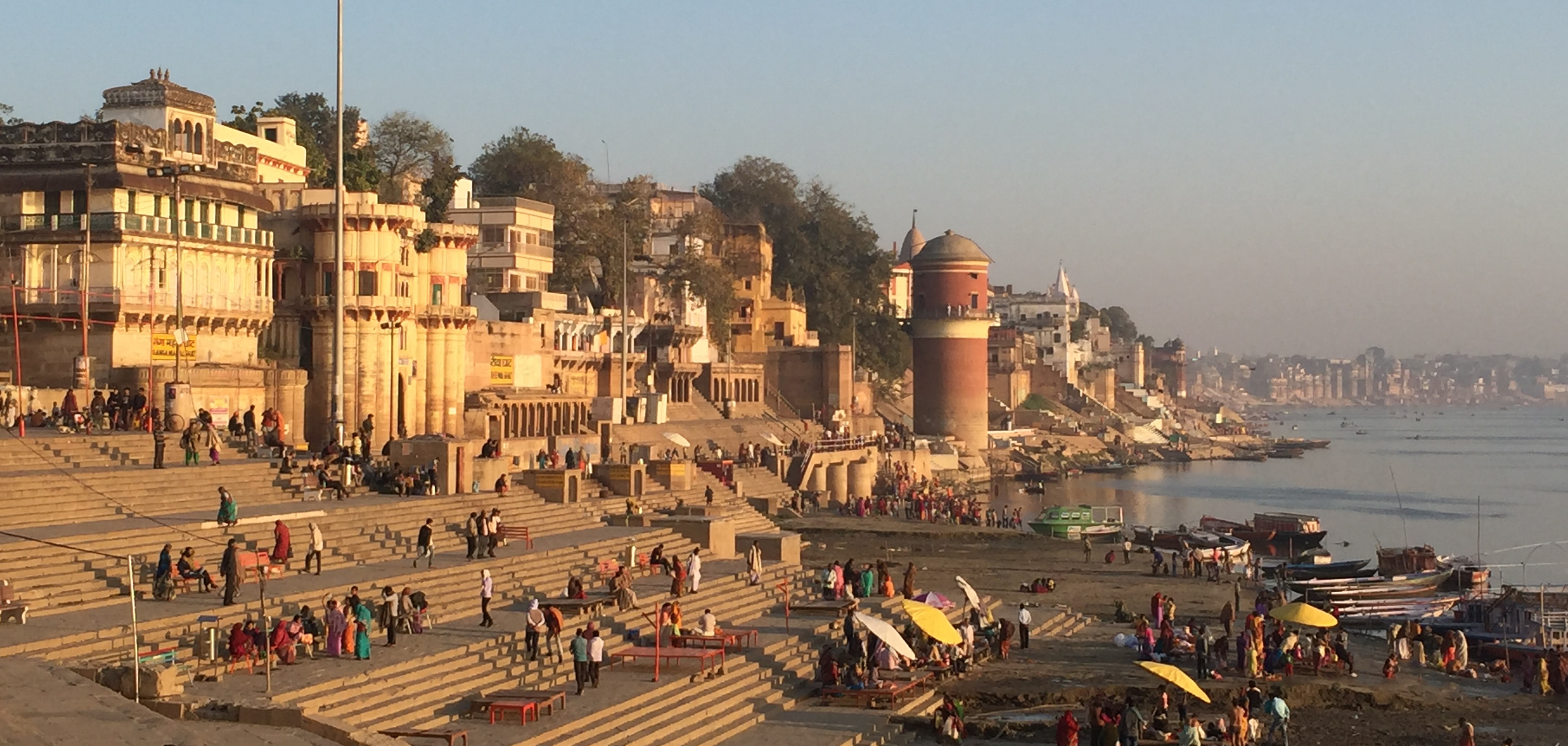 A morning in varanasi. View from Assi Ghat towards Ganga Mahal Ghat(I), Rewa Ghat, Tulsi Ghat, Bhadaini Ghat (not visible), Janki Ghat